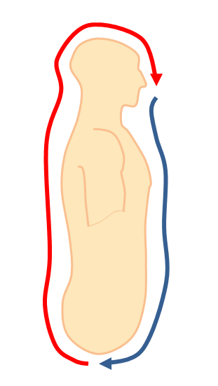 Simplified version of the micro-cosmic orbite. Simplified version is generated as unique picture (it is not a copy), according to numerous written sources. Some general sources to check the reliability of the pictures's info: Liang, Shou-Yu; Wen-Ching Wu (Unknown date) Qigong Empowerment: A Guide to Medical, Taoist, Buddhist, and Wushu Energy Cultivation, Way of the Dragon Pub, pp. 95 ISBN: 1889659029. Yang, Jwing-Ming (Unknown date) Qigong fr Health and Martial Arts: Exercises and Meditation, Boston: YMAA Publication Center, pp. 80-81 ISBN: 1886969574. Sheng, Keng Yun (Unknown date) Walking kung, Red Wheel/Weiser, pp. 104-107 ISBN: 087728895X 90900.